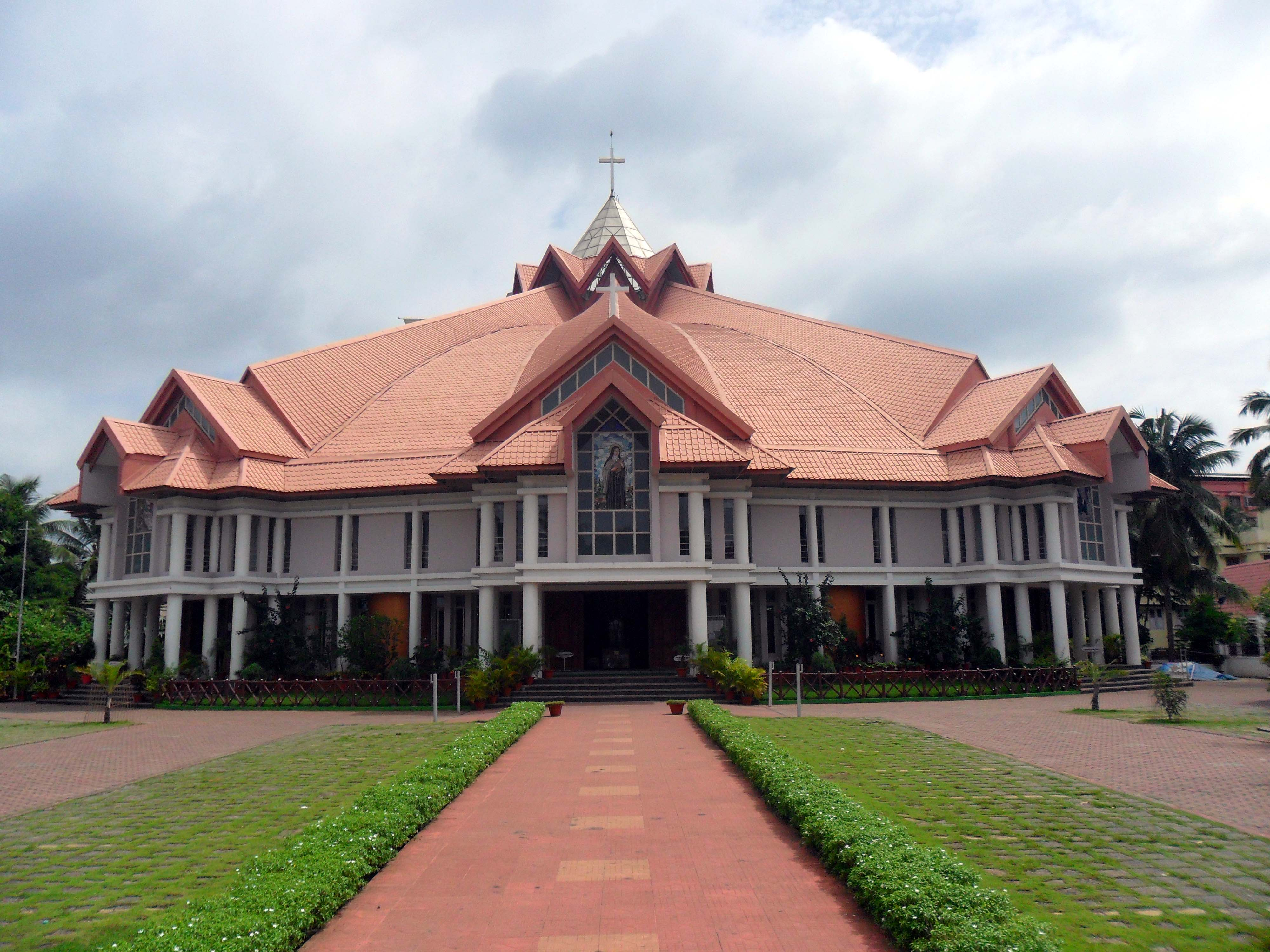 Little Flower Church Elamkulam 02